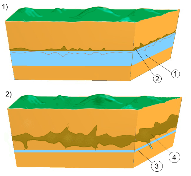 Cave's creation (one of the scenarios)